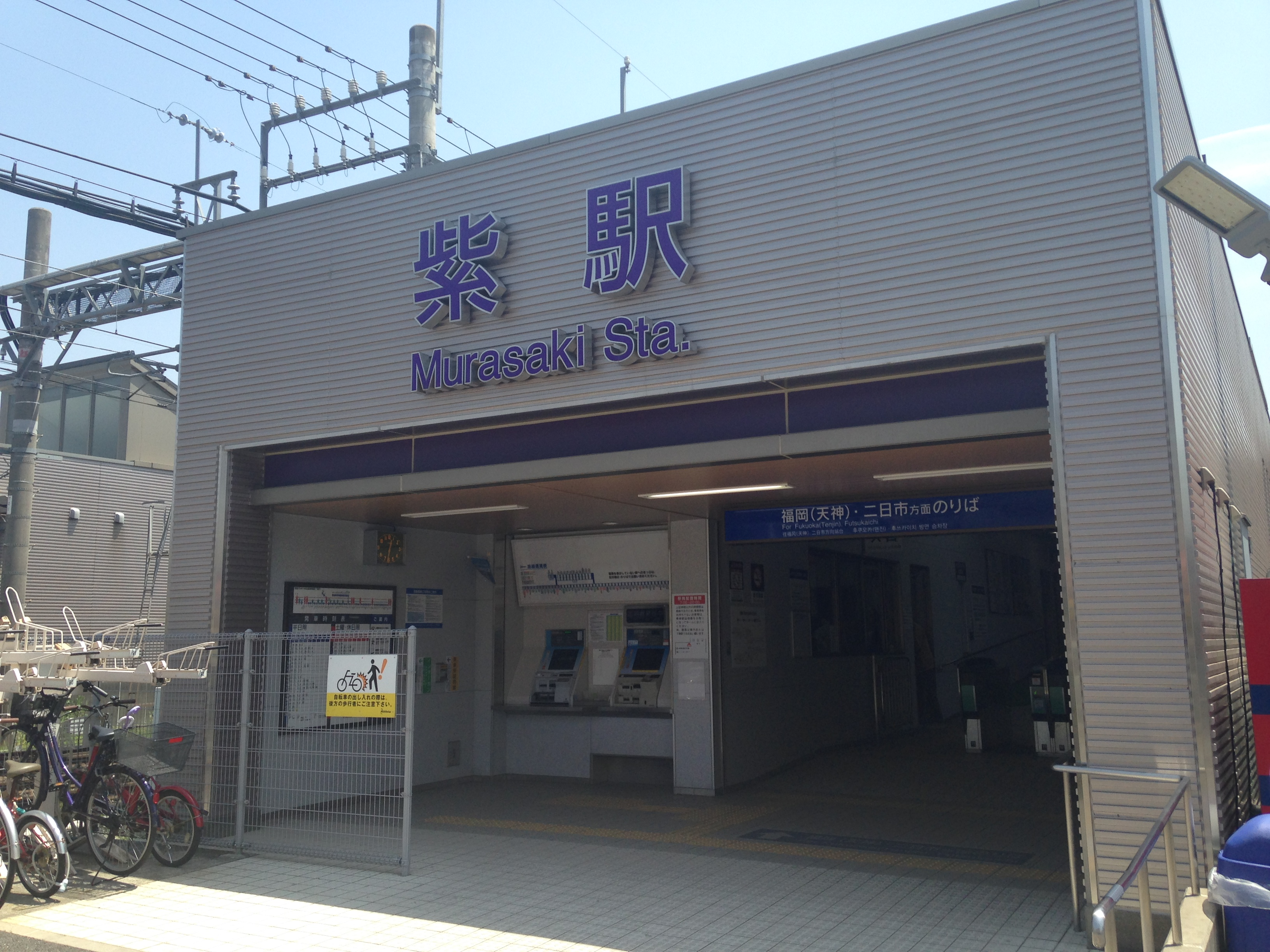 Murasaki Station on the Nishitetsu Tenjin Omuta Line